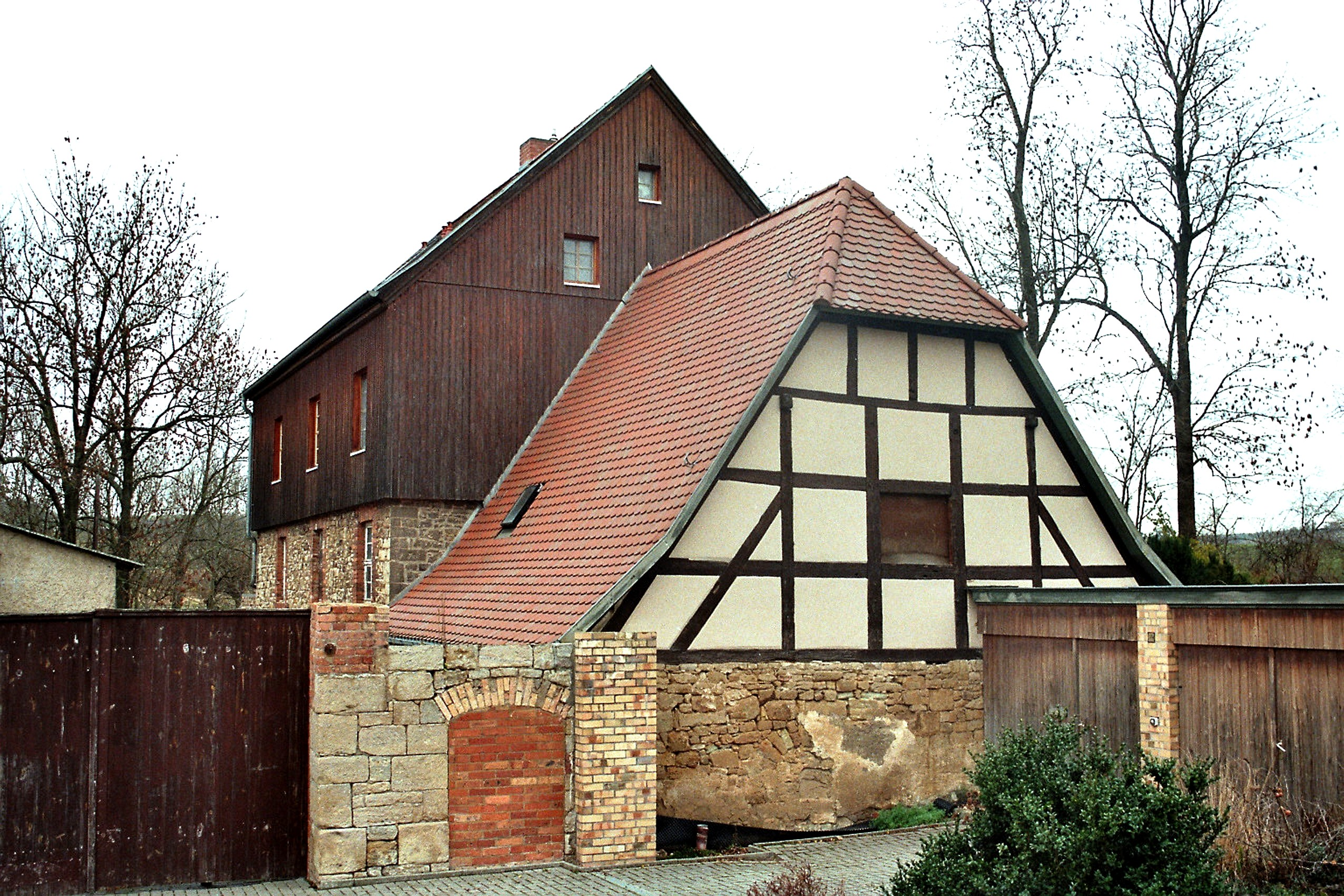 Müllerdorf (Salzatal), thr water mill